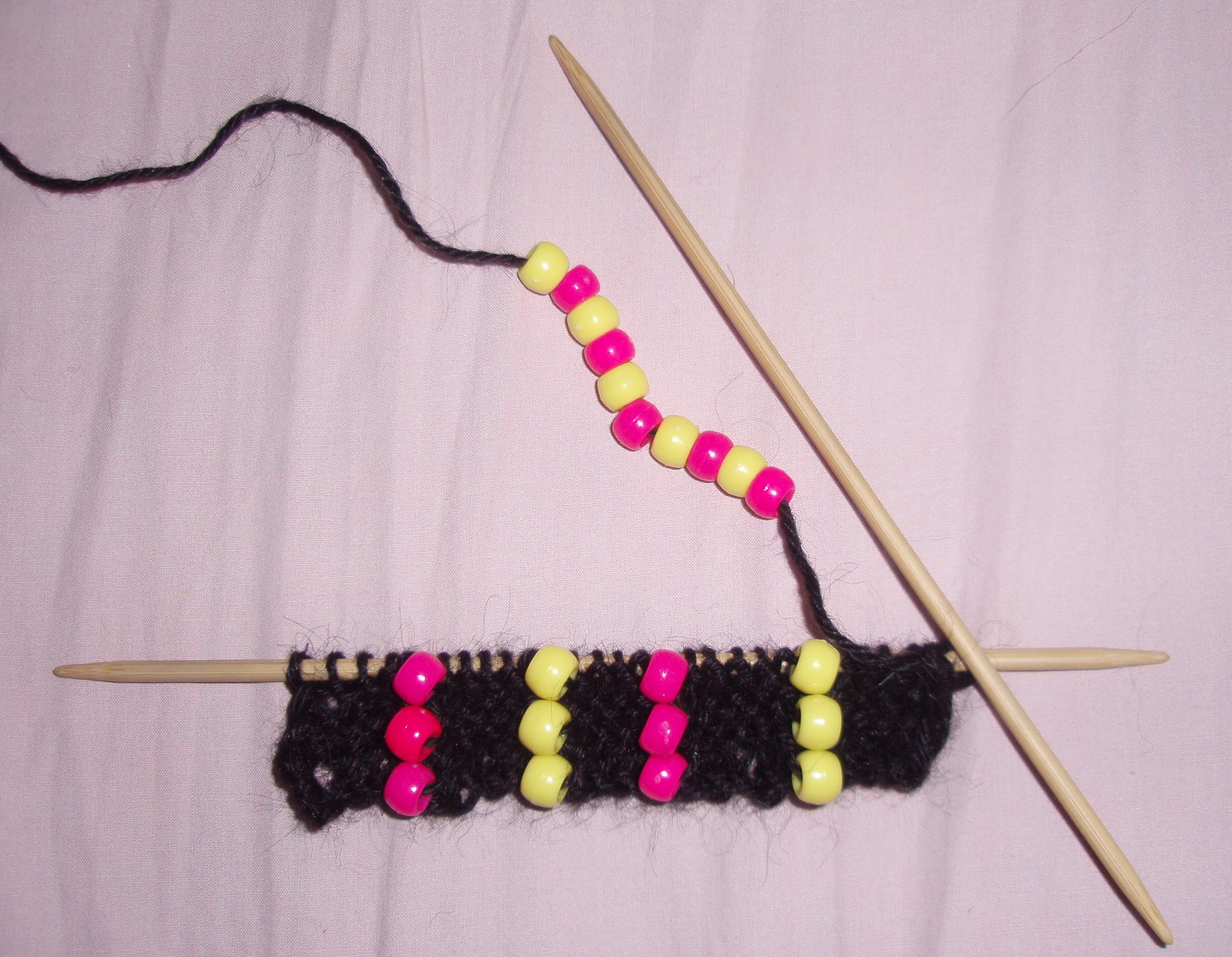 picture of bead knitting- black wool, pink and yellow beads, knitted on double points